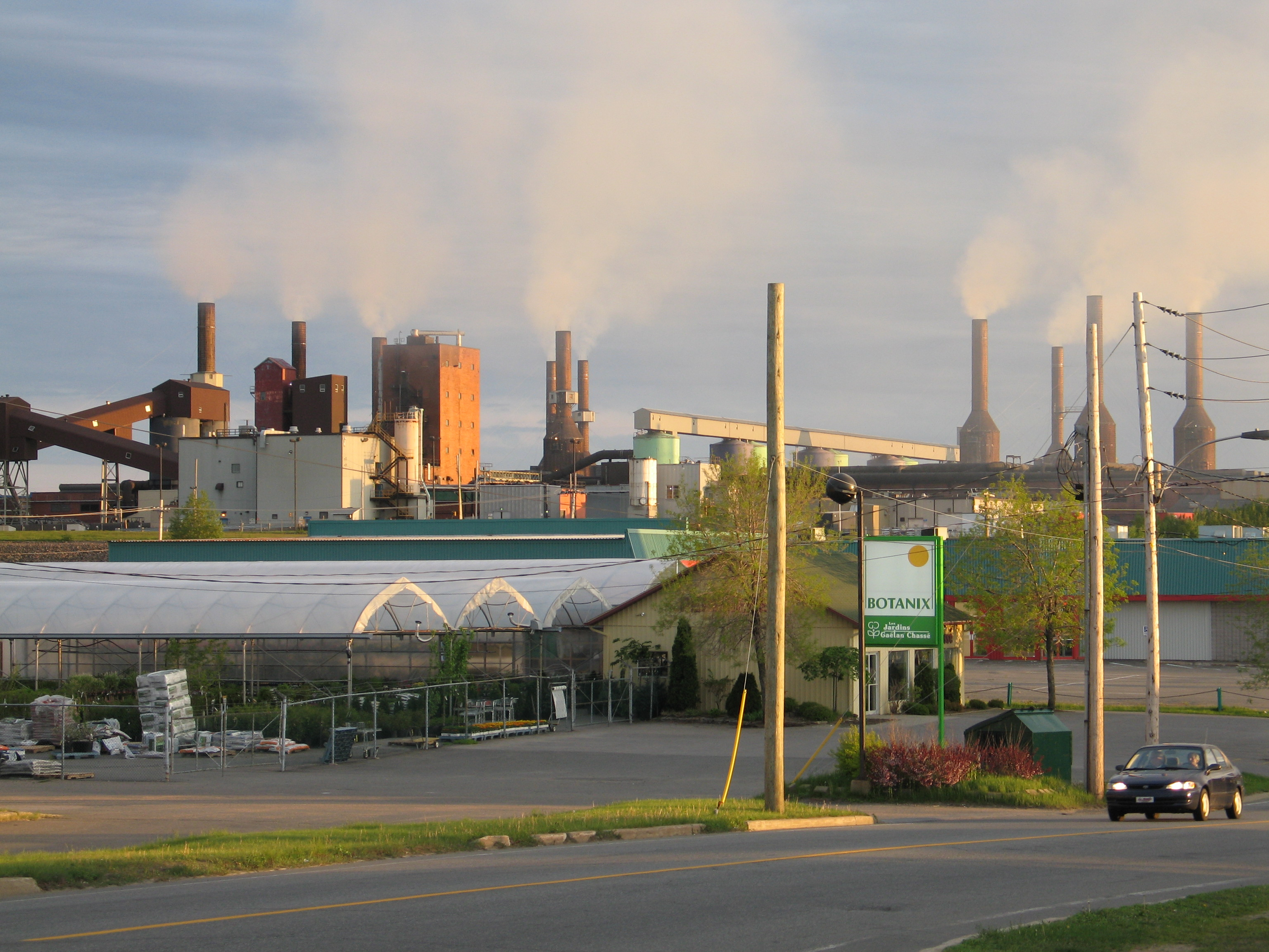 Rio Tinto Alcan's aluminium smelter in Shawinigan, Quebec.